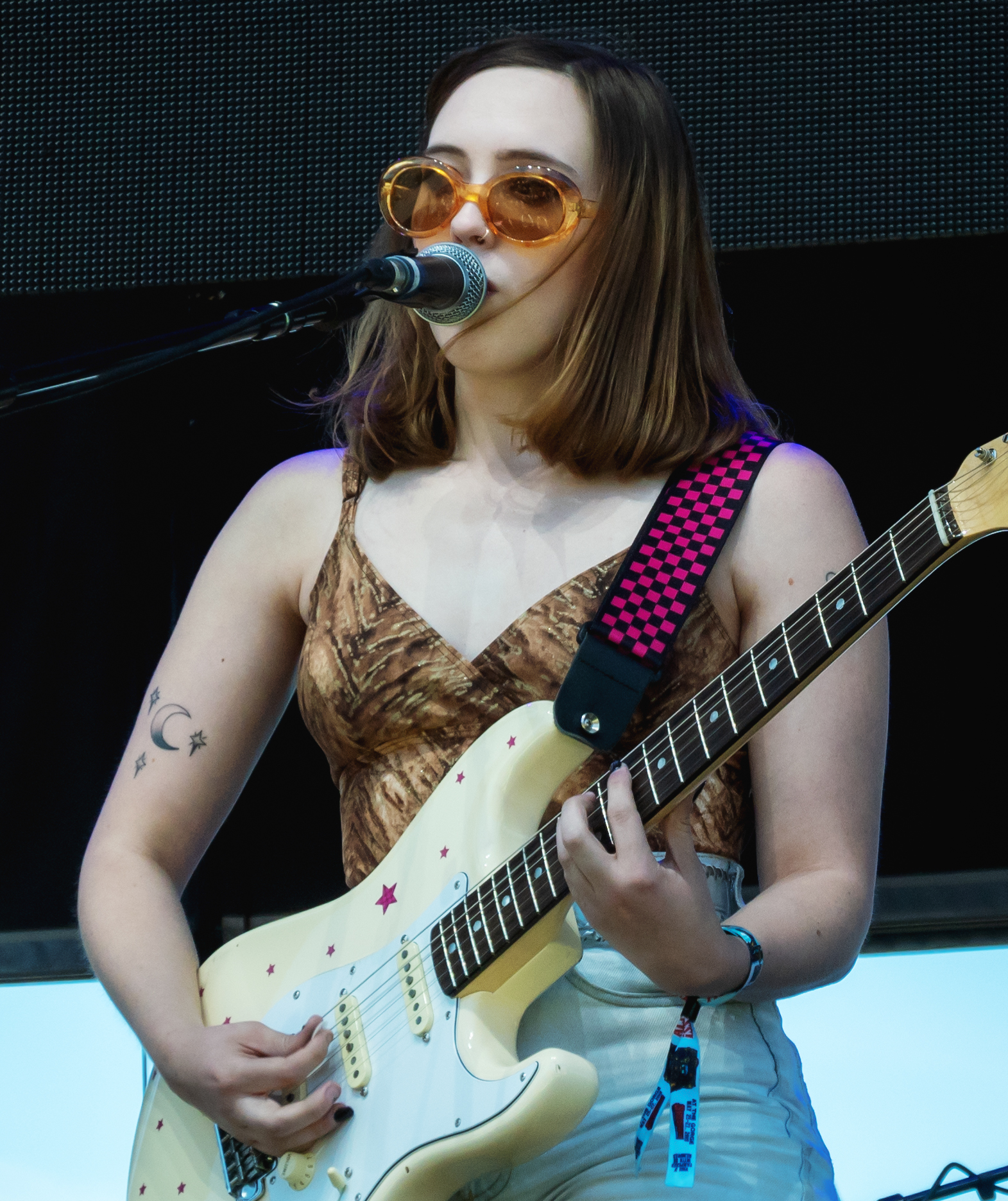 Soccer Mommy